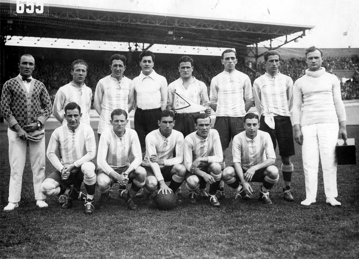 Argentine football team that played the first final vs Uruguay at the 1928 Summer Olympics. Fltr, back row: Angel Médici, Ludovico Bidoglio, Ángel Bossio, Luis Monti, Fernando Paternoster, Juan Evaristo. (Front row): Alfredo Carricaberry, Domingo Tarasconi, Manuel Ferreira, Enrique Gainzarain, Raimundo Orsi.